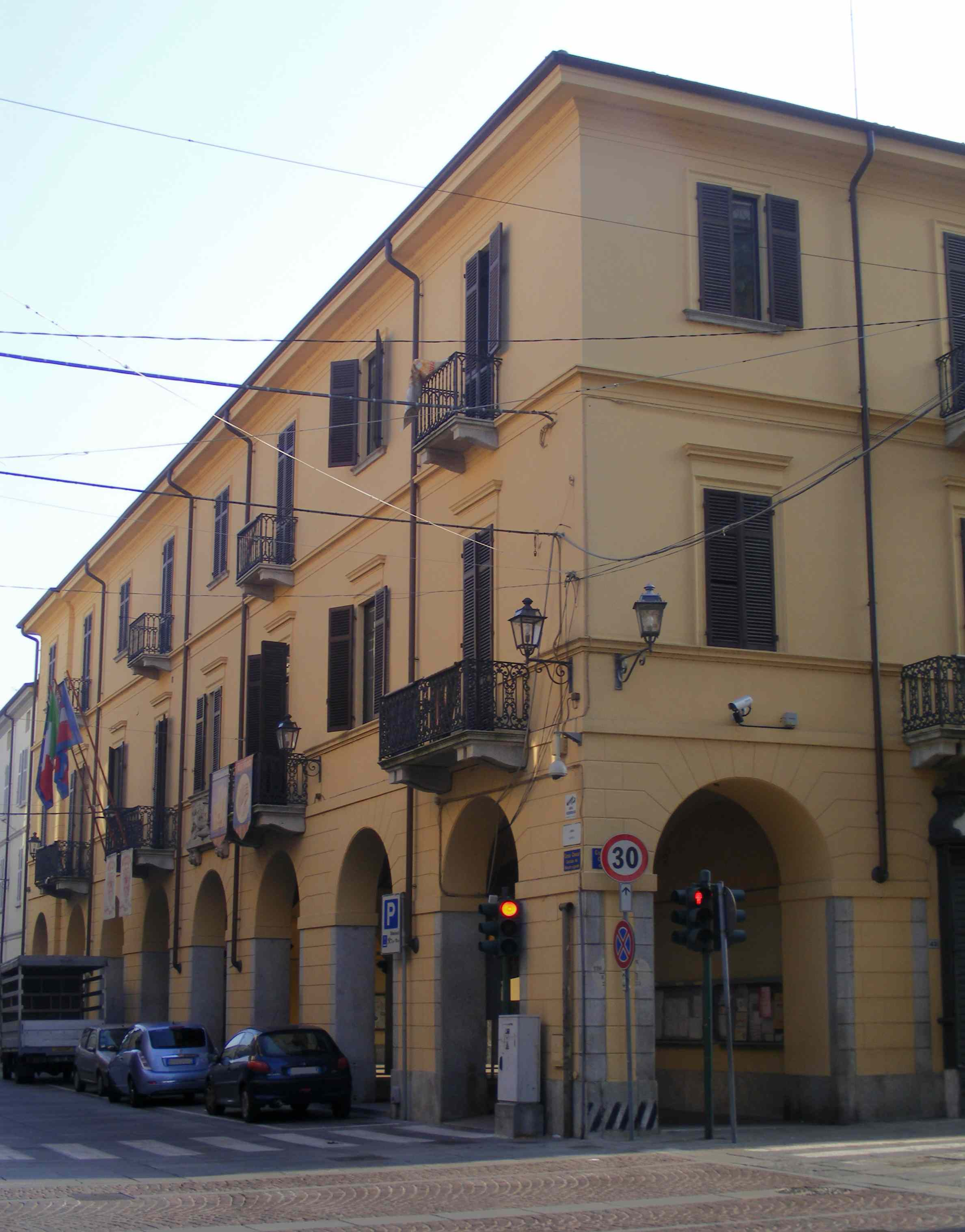 Trino Vercellese (VC, Italy): town hall